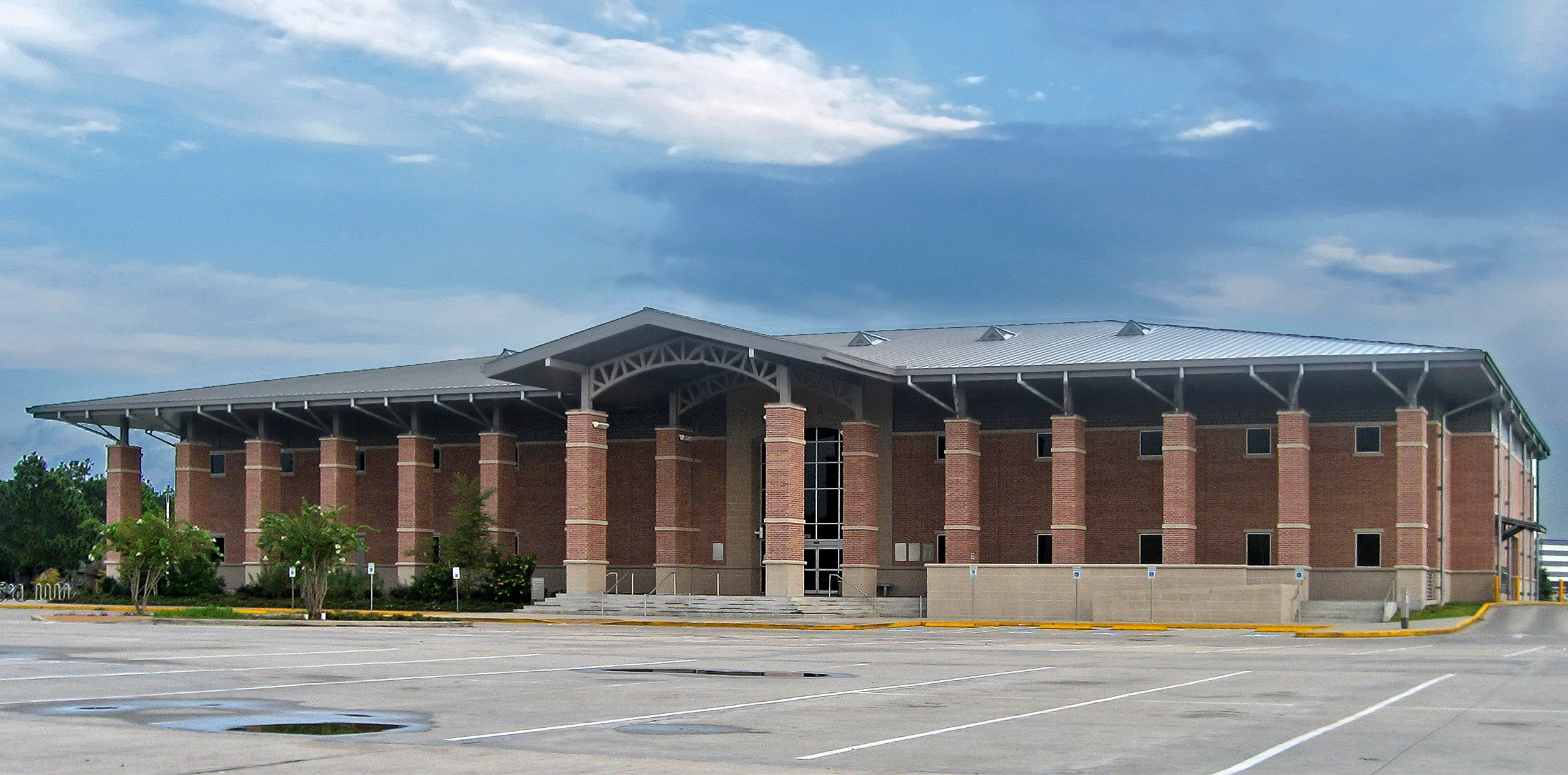 This is the Clear Lake City Freeman Branch Library of the Harris County and Houston Public Library systems. It's named in memory of Theodore "Ted" Freeman an American test pilot and NASA astronaut who was the first astronaut to die. He died in a trainer aircraft accident.